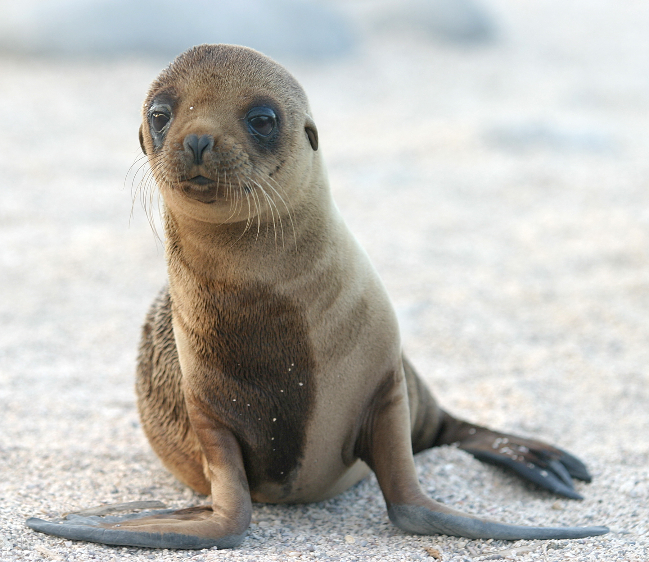 Galápagos Sea Lion (Zalophus wollebaeki) The Galapagos Islands provide absolutely amazing wildlife opportunities.